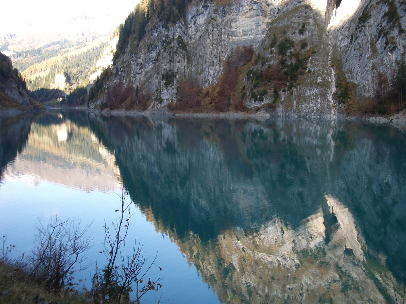 Gigerwald lake, Vättis SG, Switzerland